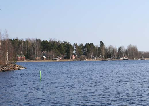 Hasanniemi in Joensuu